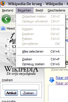 shortcuts in the dutch version of Firefox